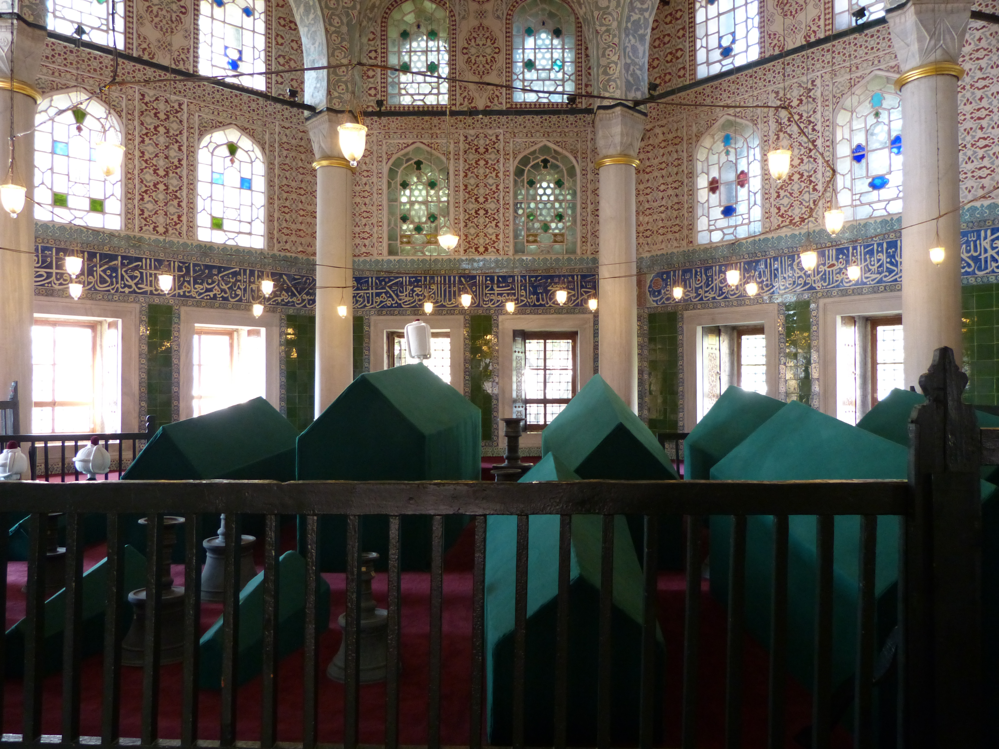 Türbe (Tomb) of Sultan Mehmed III. (1566–1603)